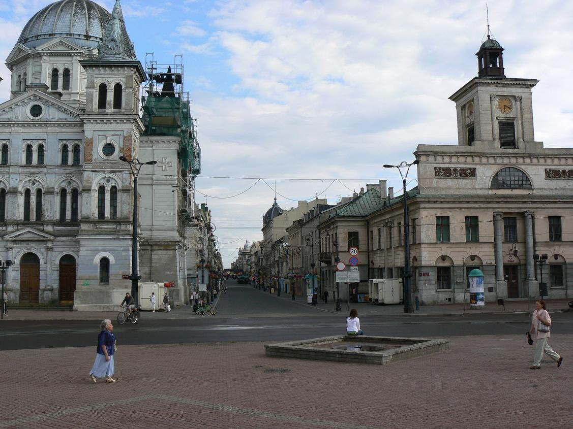 Liberty Square in Łódź